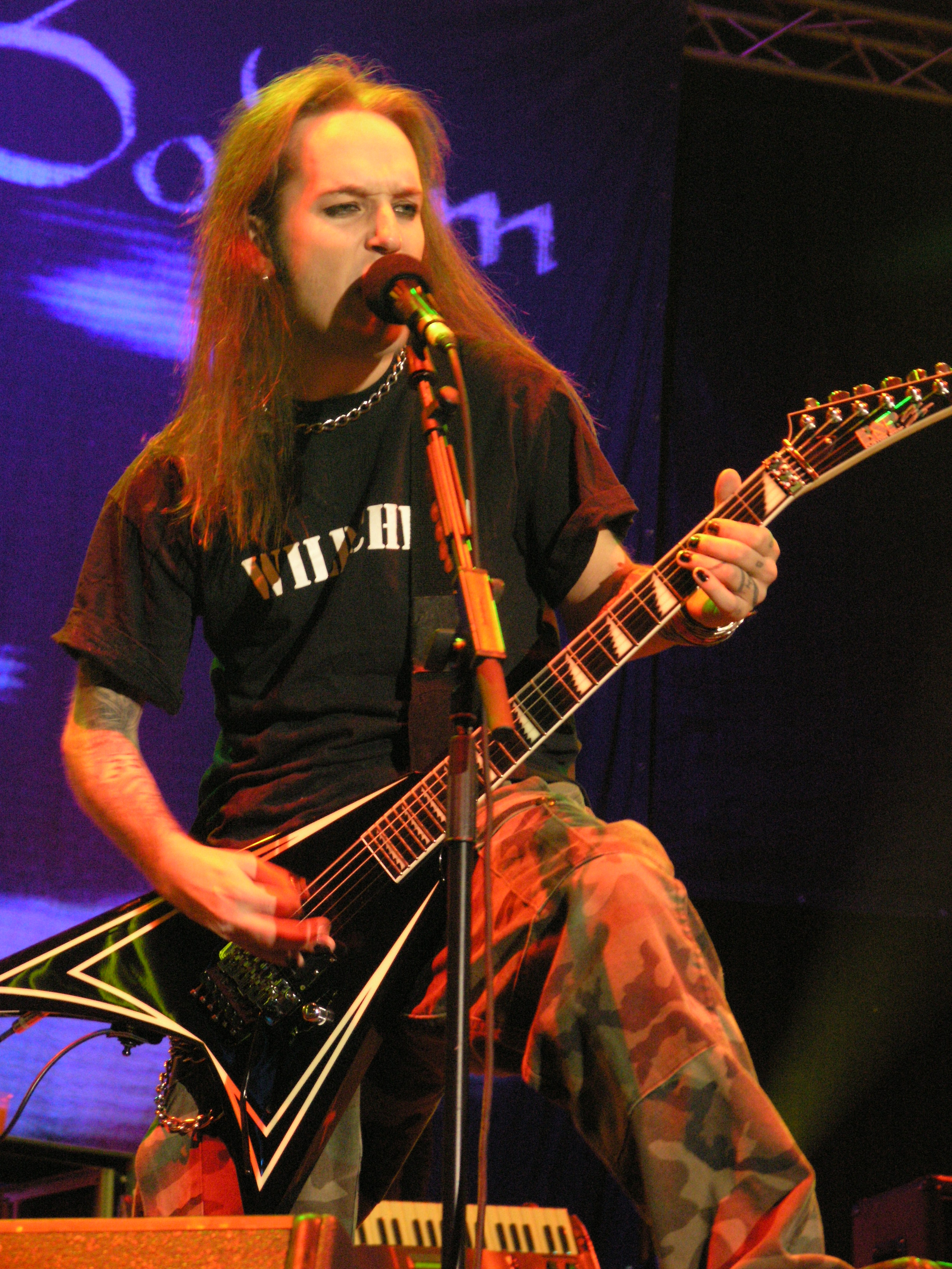 Alexi Laiho from Children of Bodom during Masters of Rock 2007 festival